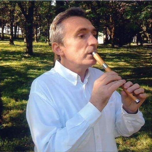 Фрулаш Аҧсшәа: Фрулаш